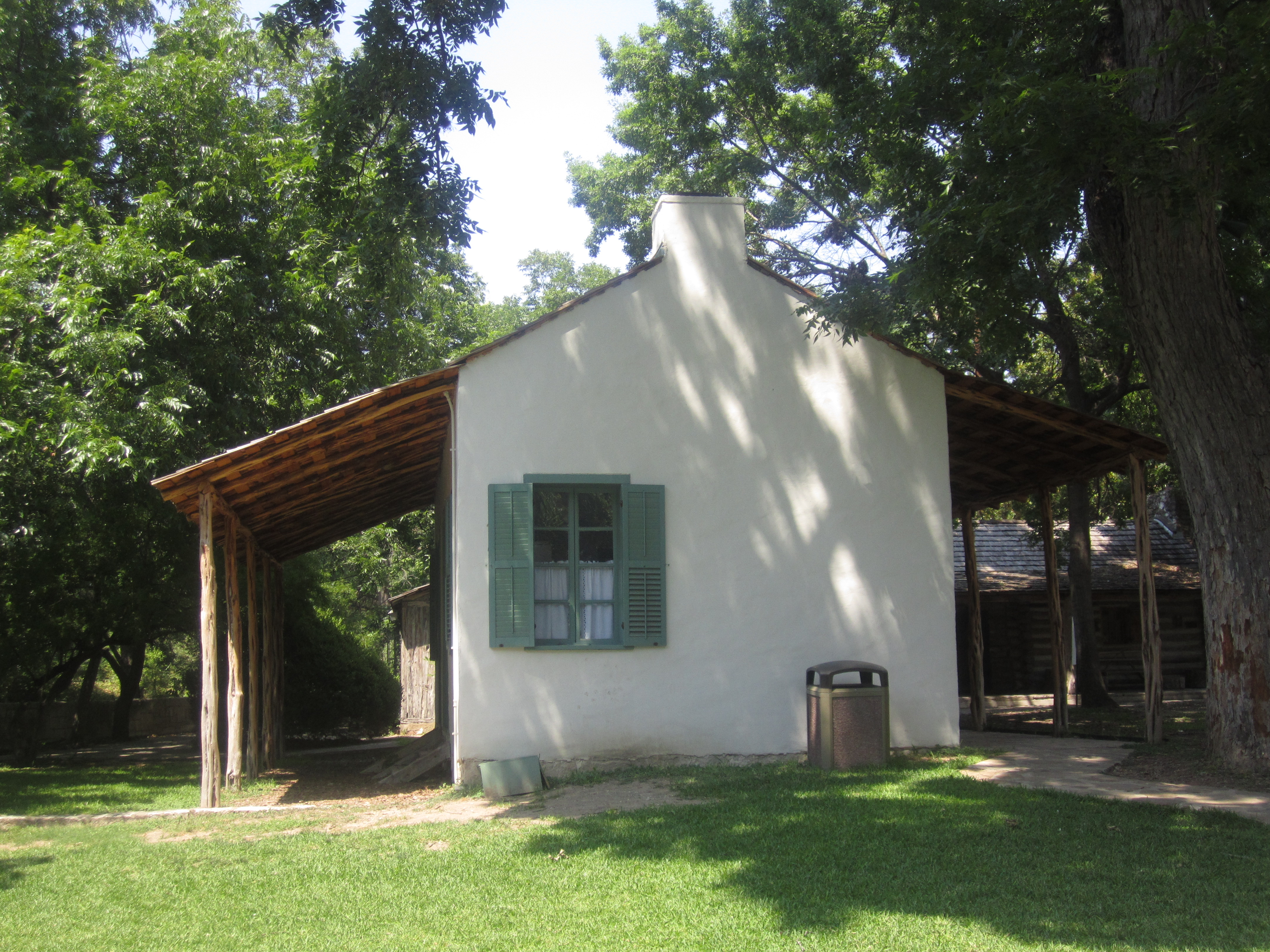 I took photo with Canon camera of Celso-Navarro House at Witte Museum in San Antonio. Earlier, I misidentified the Twohig House as Celso-Navarro.